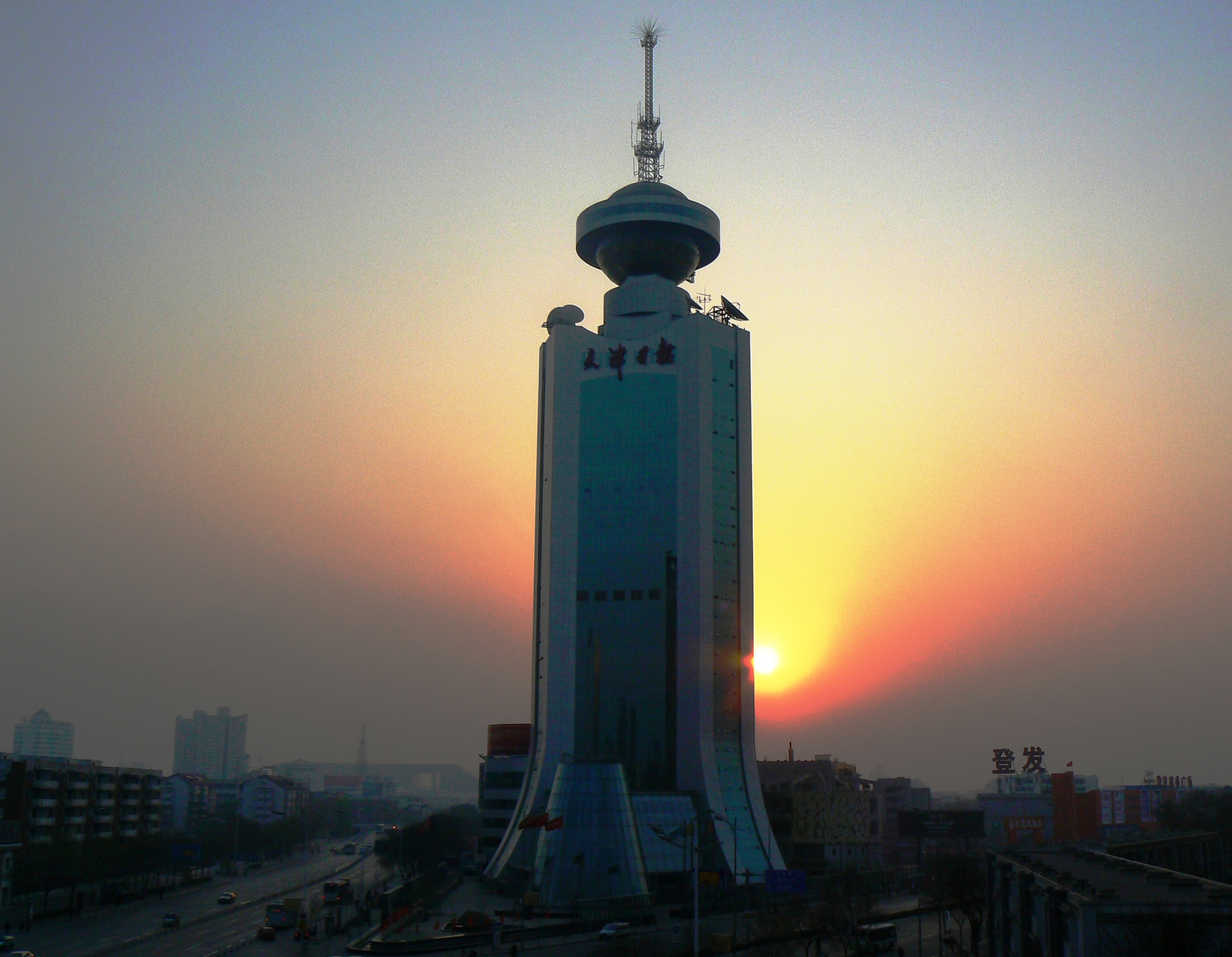 The headquarters of the tianjin daily newspaper company in Tianjin, China.